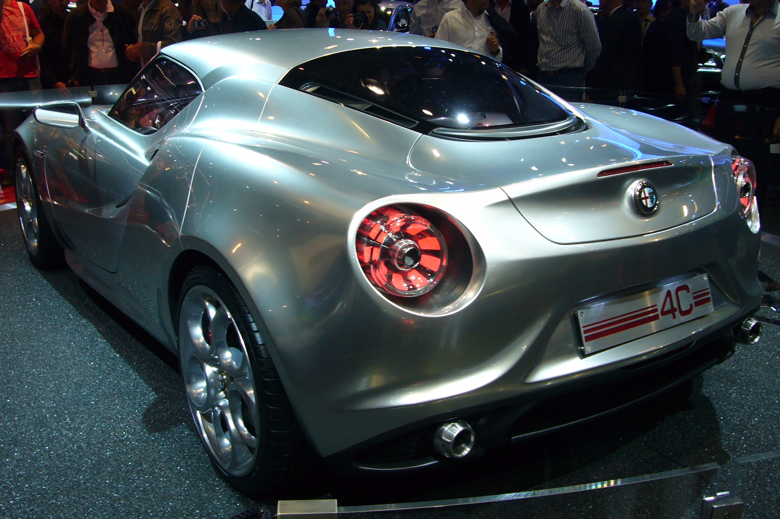 Alfa Romeo 4C Fluid Metal Concept at IAA Frankfurt 2011.